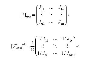 jacket transform